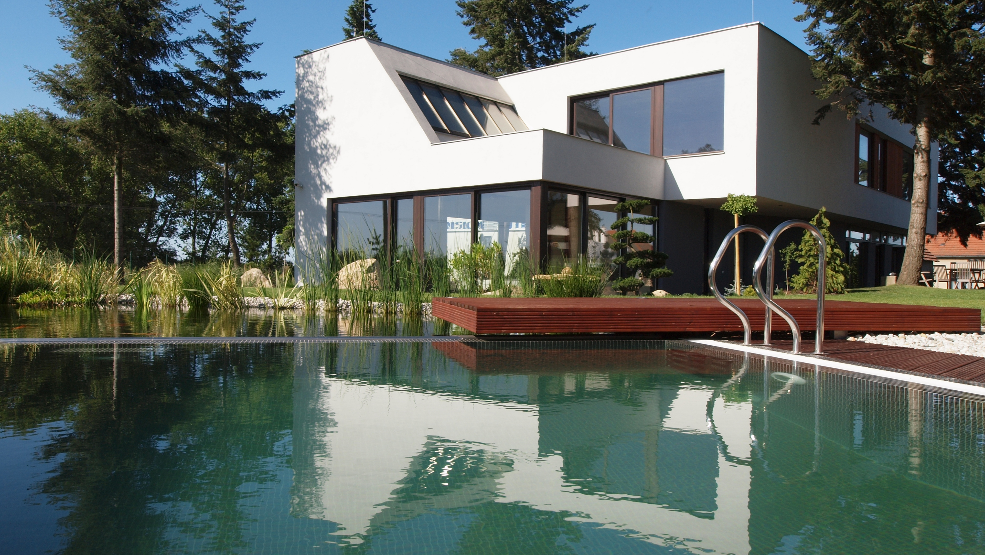 Example of an intelligent building